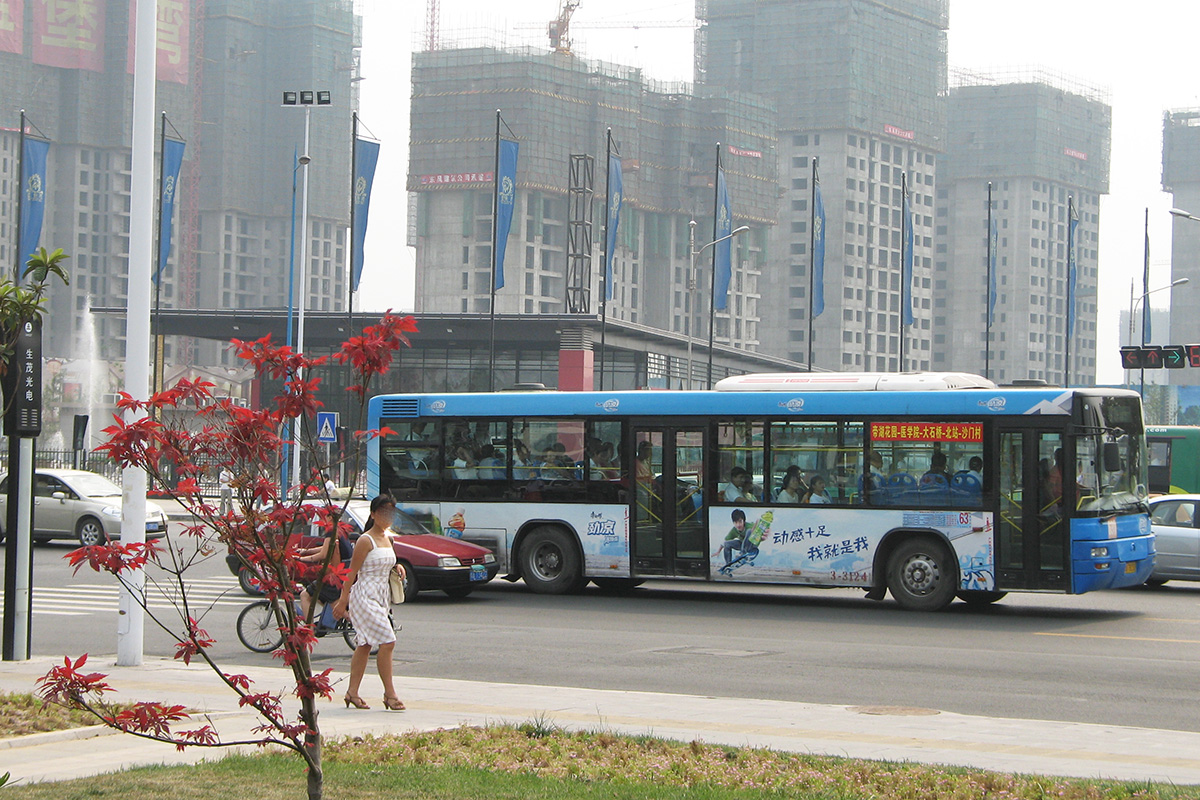 Huayuan Road and Dongfeng Road cross in 2007, Zhengzhou